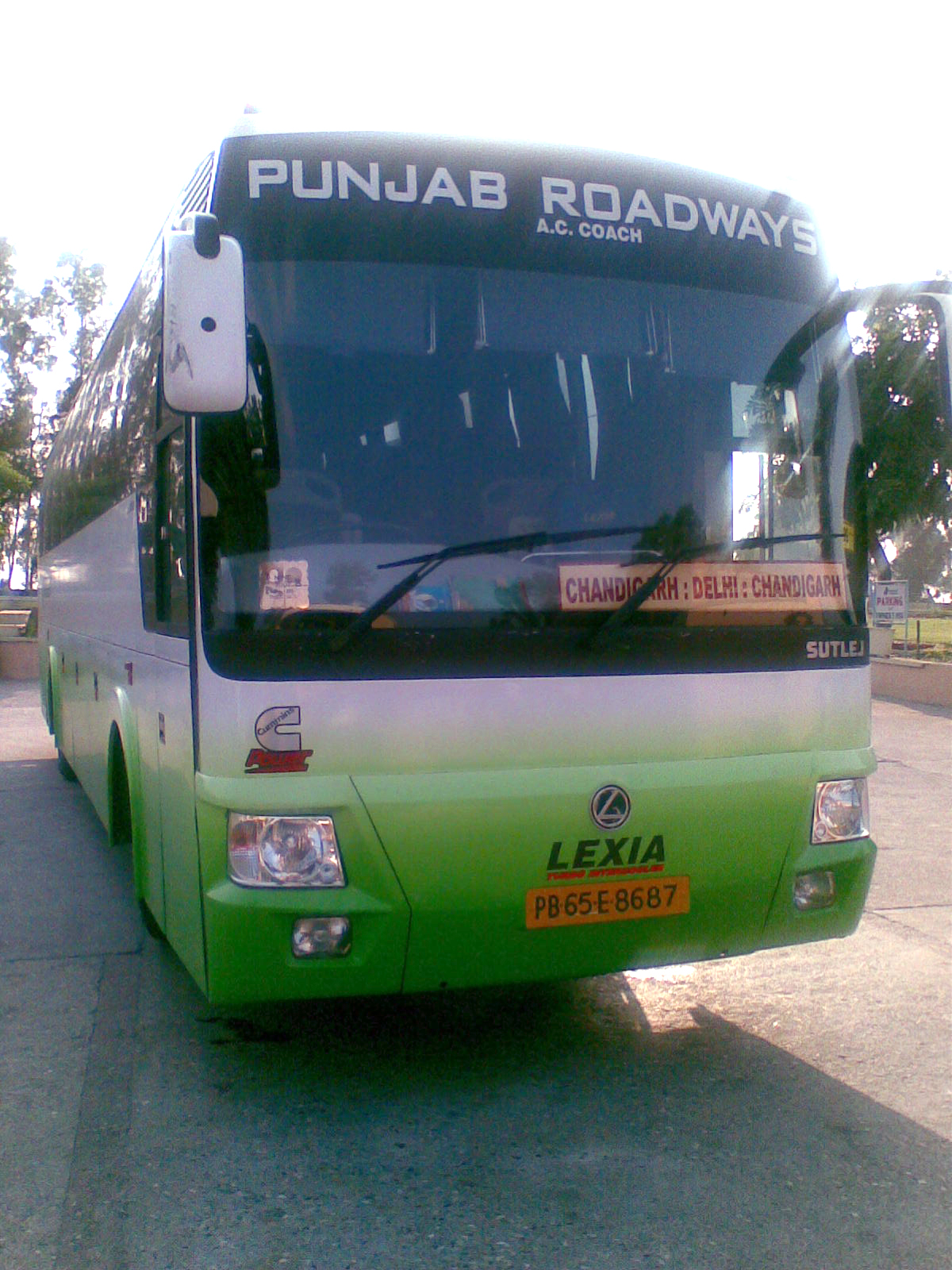 Punbus coach. A cameraphone picture taken during a trip out of Chandigarh, India, in 2007.